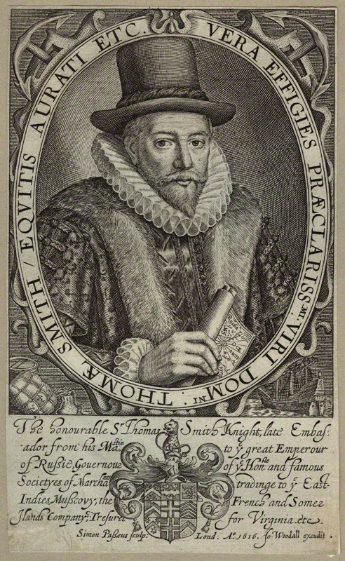 Sir Thomas Smythe (1558-1625) Original caption reads: "The honourable Sr Thomas Smith Knight, late Embaſ: ador from hıs Ma.stie to ye great Emperour of Ruẞie, Gouernouꝛ of ye Hon:ble and famous Societyes of Marchanes tradınge to ye East- Indies, Moẞcovy, the French and Someꝛ Ilands Company, Treſureꝛ for Virgınia, etc. Simon Paẞeus ſculp Lond: №, 616. To: Woodall excudit."